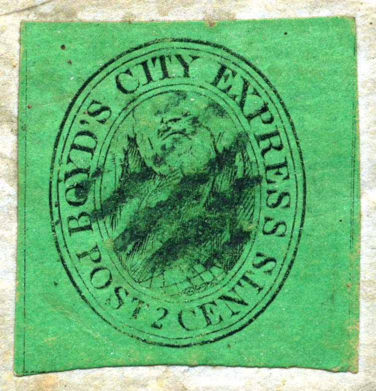 United States local stamp, Boyd's City Express 2 cents (1845, Scott #20L4)